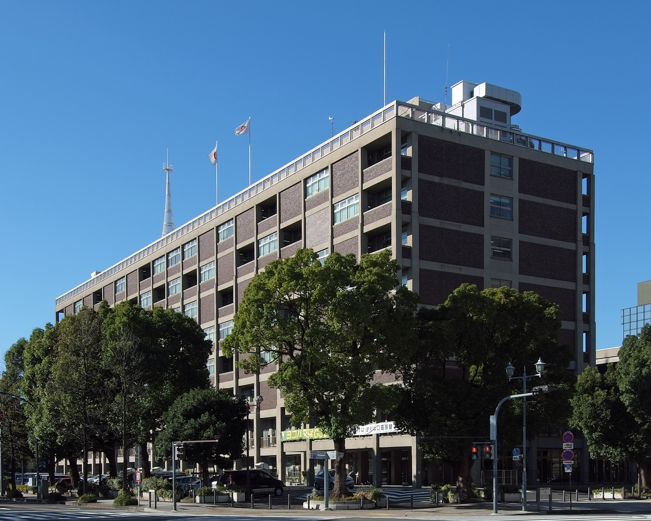 Yokohama City Hall, at Yokohama Kanagawa Japan, design by Togo Murano in 1959.